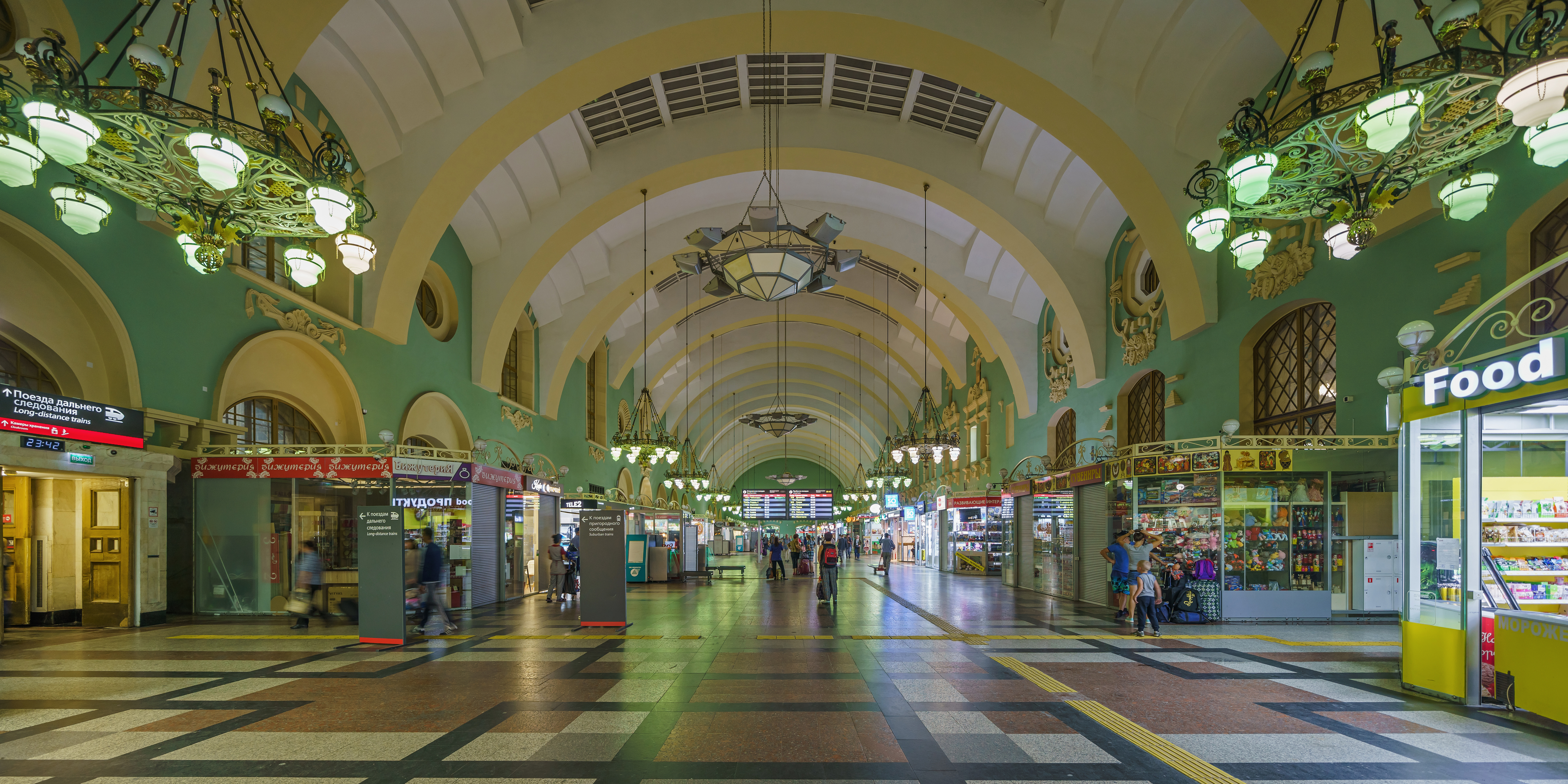 Interior of Kazansky railway terminal in Moscow, Russia.